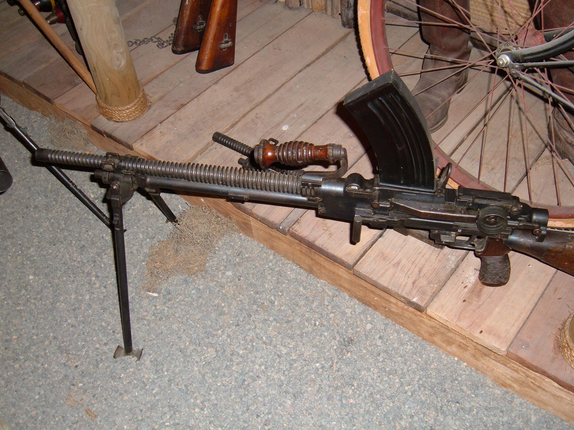 Type 96 light machine gun on display at the Sgt. Richard Penry Medal of Honor Memorial Military Museum in Petaluma, California.